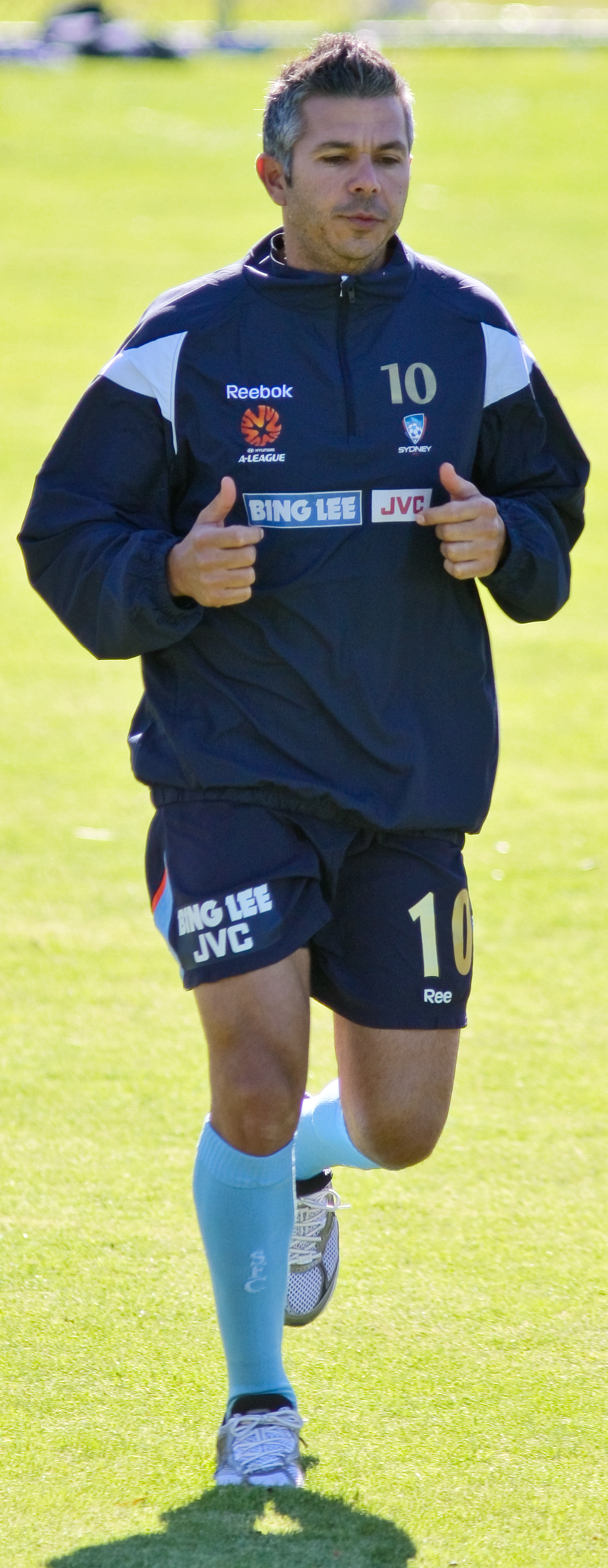 Steve Corica at 2009-2010 pre-season training with Sydney FC.